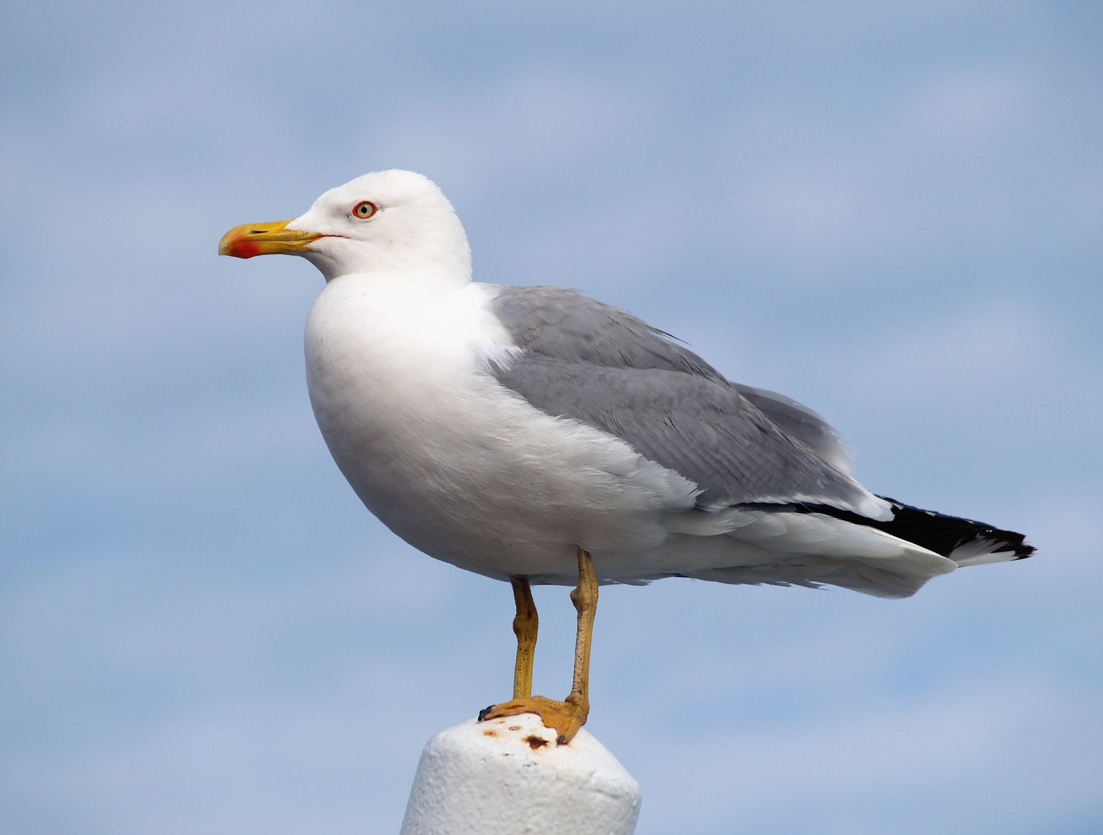 adult Yellow-legged Gull (Larus michahellis), Thasos, Greece